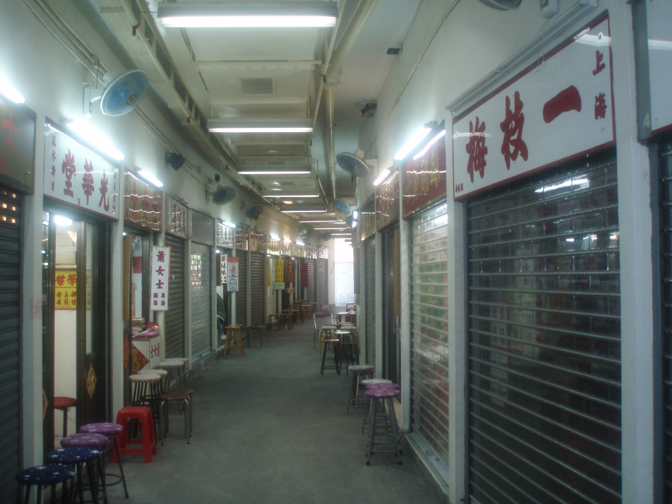 The lower floor of "Wong Tai Sin Fortune-telling and Oblation Arcade", just next to Wong Tai Sin Temple